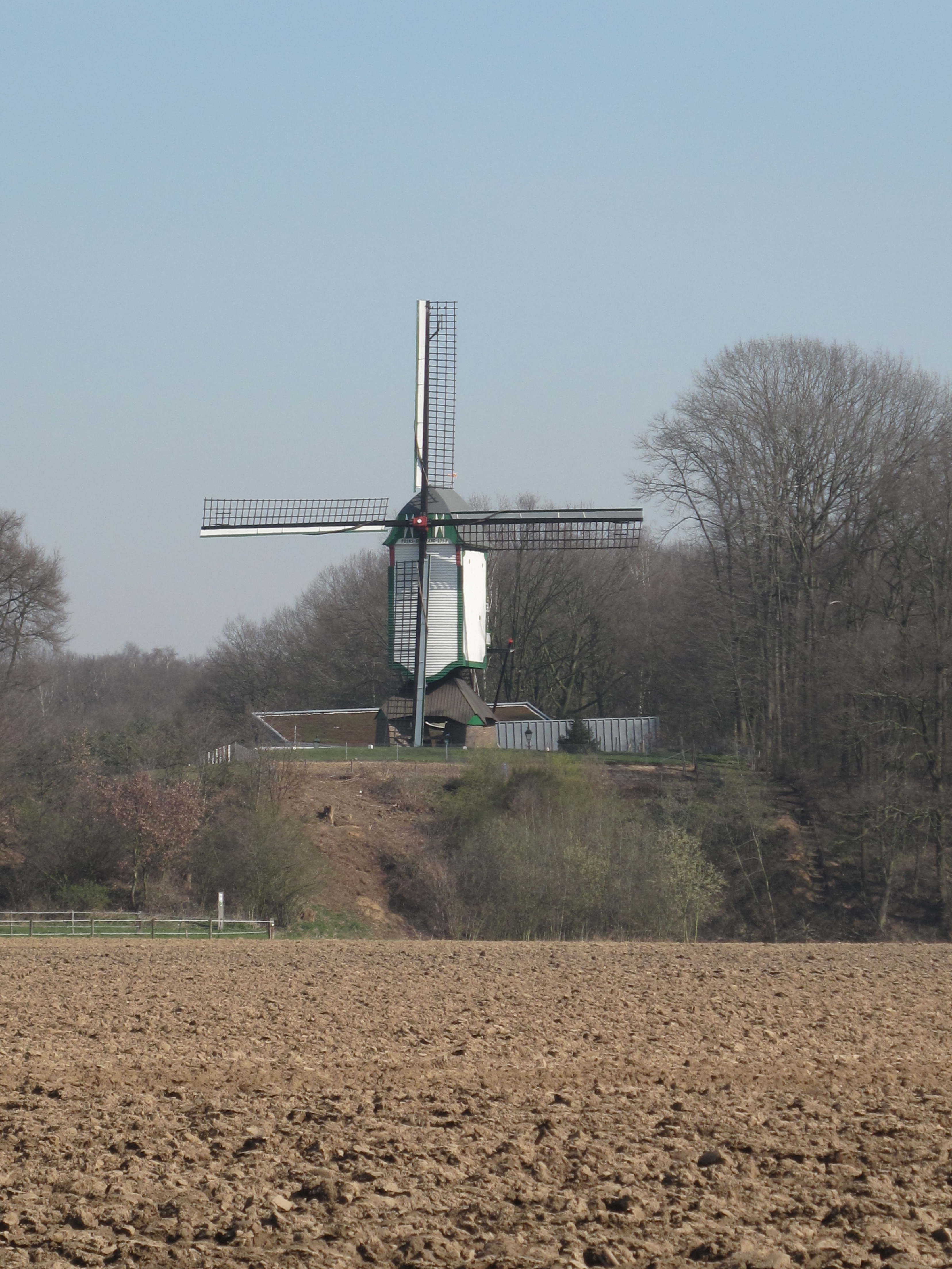 Melick, windmill: Prins Bernhardmolen